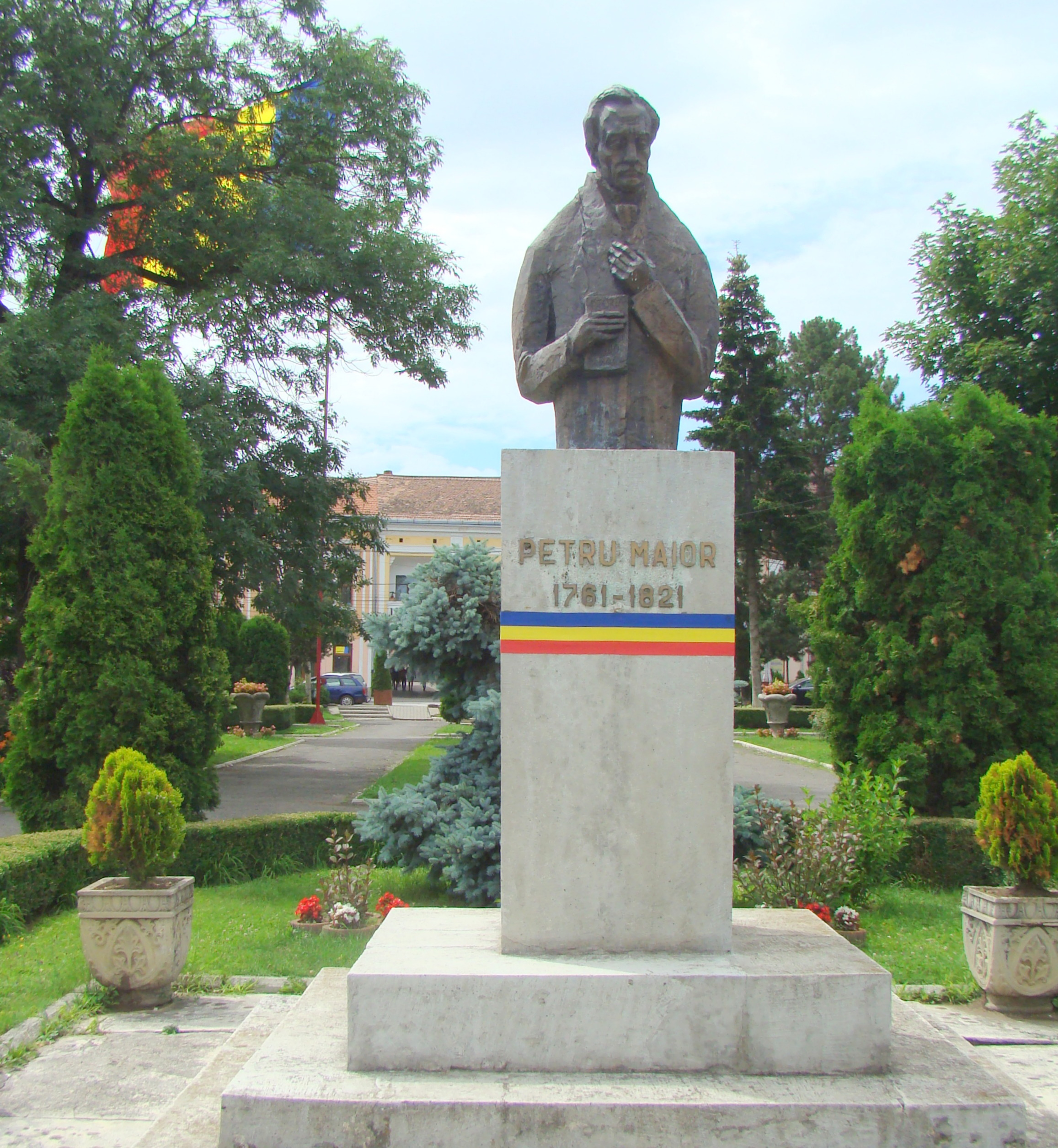 Bust of Petru Maior in Reghin, Mureş county, Romania